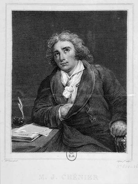 Engravings based on this portrait appeared as the frontispieces to multiple editions of Chénier's collected works, beginning in 1801. The engraving attributes the work to Horace Vernet, though a similar portrait of Chénier at age 30, now in the Carnavalet (# P.68), is considered anonymous. The image reproduced here is engraved by Jerome Lefevre for the Oeuvres de M. J. Chenier (Paris: Guillaume, 1826); it appears courtesy of the Library of Congress [PQ 1966 A1 1824, v. 1].